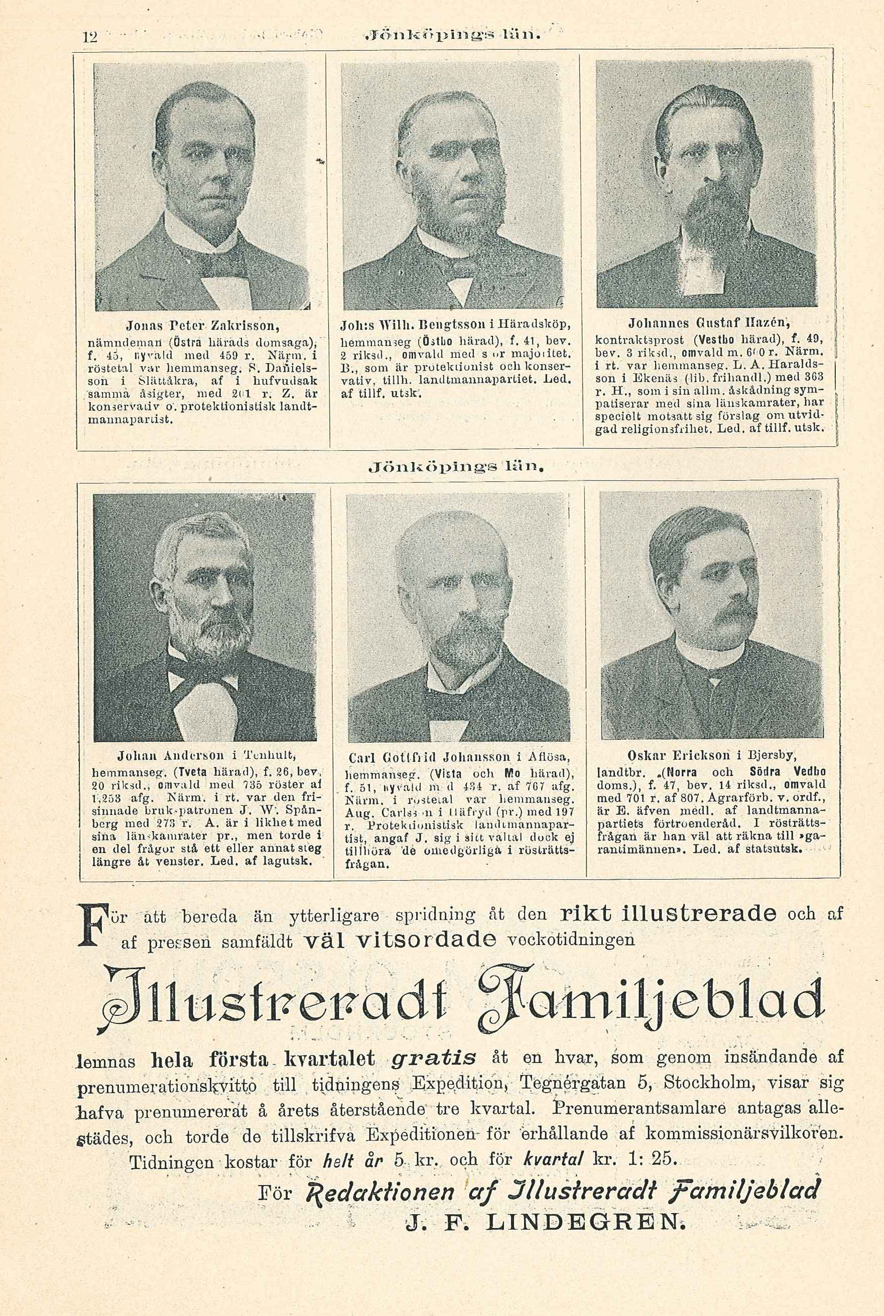 Page 12 of an album featuring portraits of all the members of the second chamber of the Swedish parliament (Sveriges riksdag) elected in 1897. This page featuring parts of the members representing the county of Jönköping.